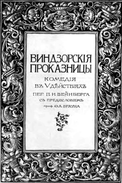 Shakespeare, «The Merry Wives Of Windsor», stylization of a letters by Vladimir Taburin